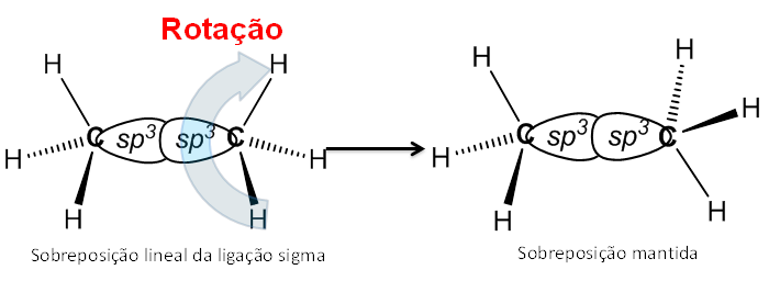 Rotação em torno a ligação sp3 da molécula de etano